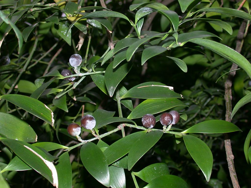 Species :Podocarpus nagi Family Podocarpaceae Japanese name Nagi（ナギ） Date;2007,1,28.Sansyojinjya,Shirahama Town,Wakayama Pref. Japan Author;Keisotyo